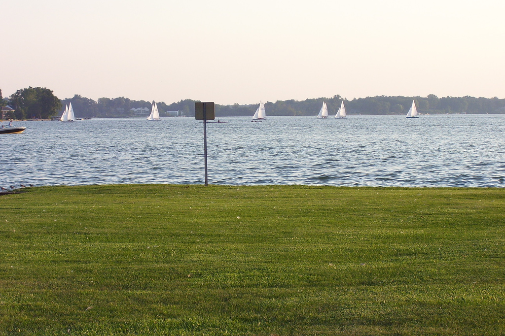 Cass Lake, Michigan, 2006